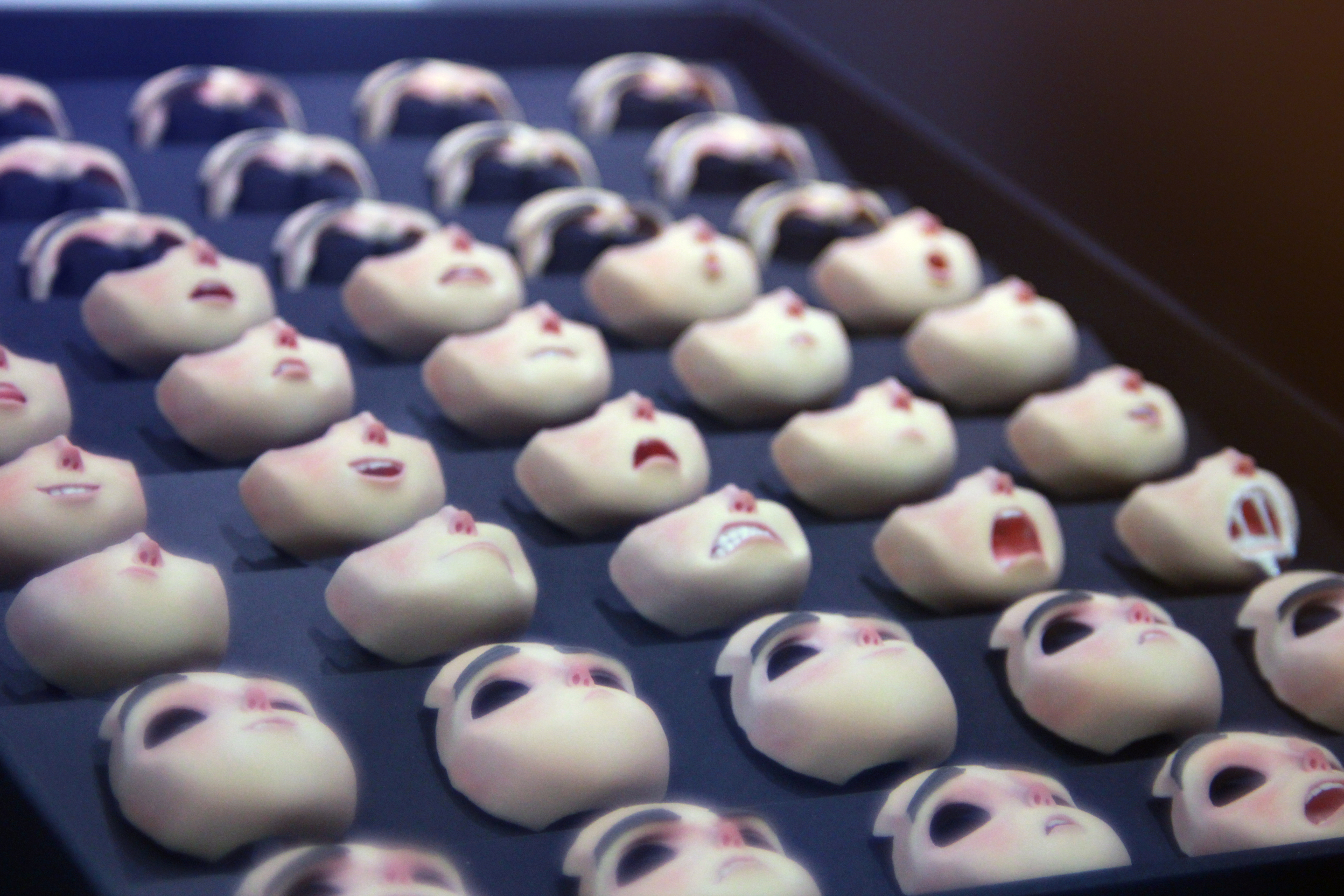 Norman's faces, shown at the ParaNorman Exhibit, demonstrate first ever use of full-color 3D printers for animation.